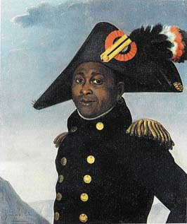 A portrait of Toussaint Louverture, 1813 Oil on Canvas, 65.1 x 54.3 cm. (25.6 x 21.4 in.)